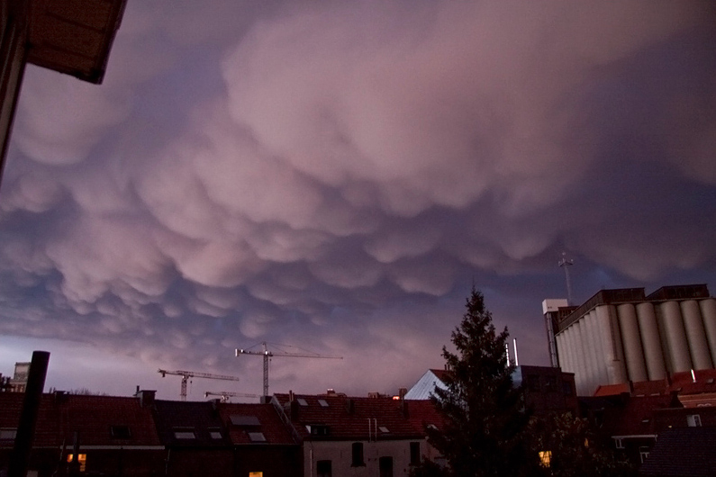 Mammatus clouds over Leuven, Belgium